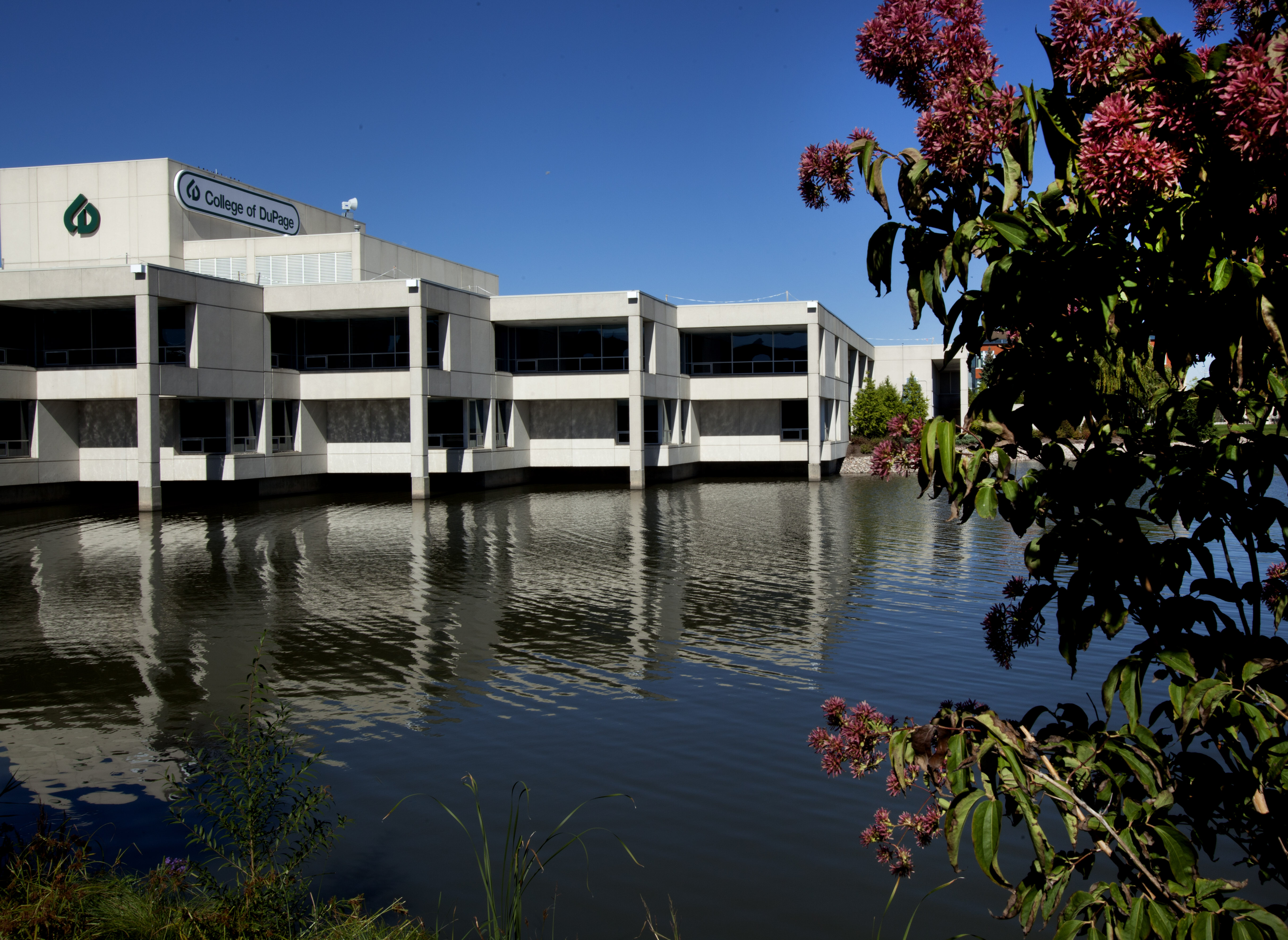 Students enjoy the sights of fall at the College of DuPage Glen Ellyn campus, 425 Fawell Blvd. COD, which recorded its highest enrollment since converting from quarters to semesters in 2005, is undergoing upgrades to its entire campus. This fall, College officials reopened the newly renovated Seaton Computing Center and the newly constructed Campus Maintenance Center. COD Board members recently approved architectural and construction management contracts for Phase II of the Homeland Security Training Institute. Pictured: McAninch Arts Center.